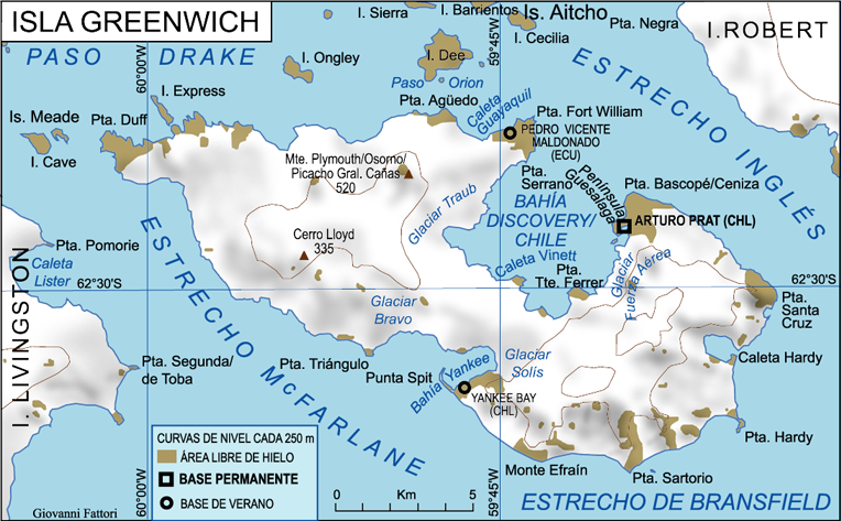 Map of Greenwich Island, South Shetland Islands, Spanish language